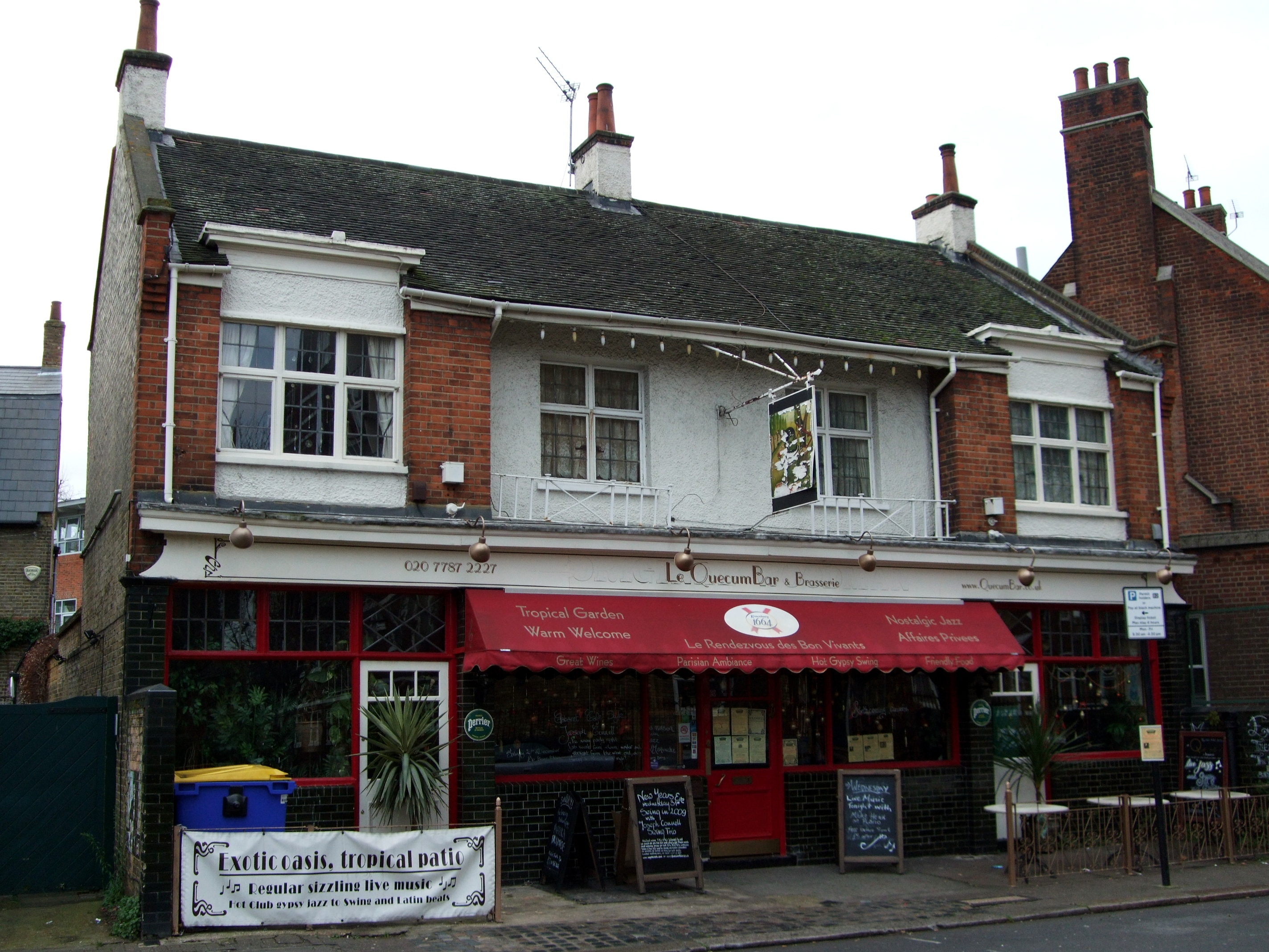 An exceedingly oddly-named French bar (and jazz music venue, I believe), just up the road from The Woodman. Address: 42-44 Battersea High Street. Former Name(s): The Original Woodman. Owner: Watney Combe Reid (former). Links: Fancyapint Beer in the Evening Qype Dead Pubs (history)